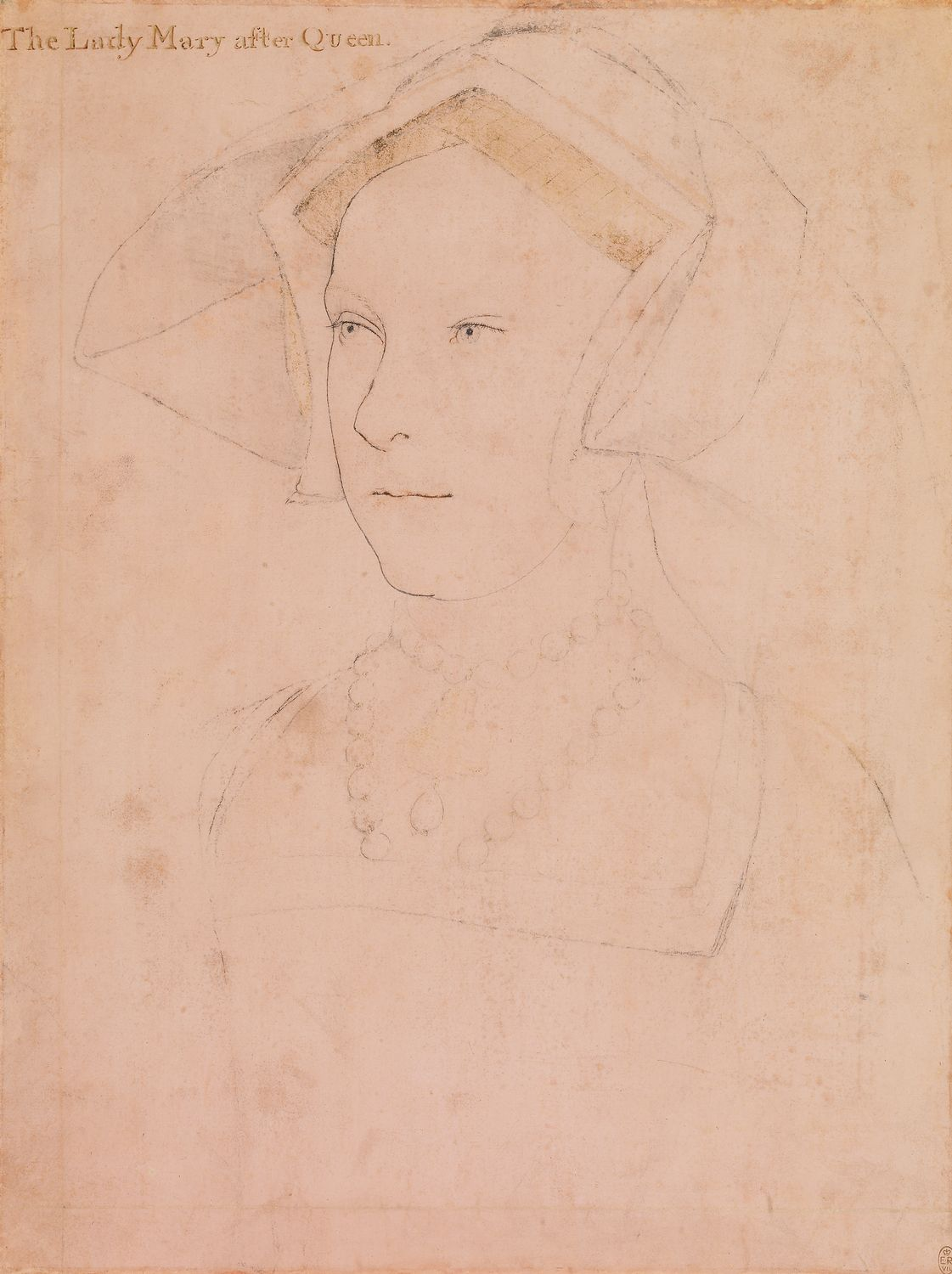 Queen Mary I Tudor, 1536, Black chalks, Windsor Castle, Royal Library, Lady Mary Tudor, the later Queen Mary I. of England "Bloody Mary", only surviving child of King Henry VIII. of England and his first wife Katherine of Aragon